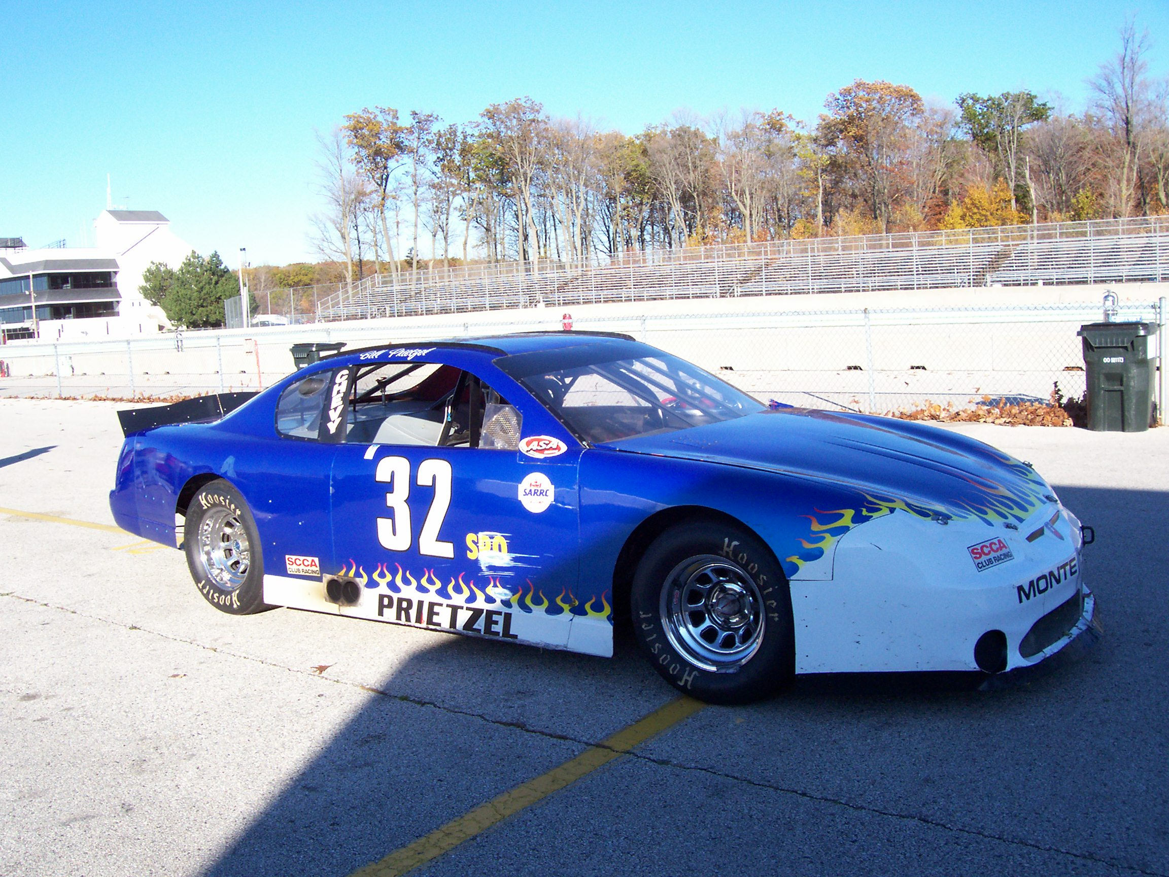 Bill Prietzel's #32 SCCA SPO Sports Car / ASA Touring car at Road America.